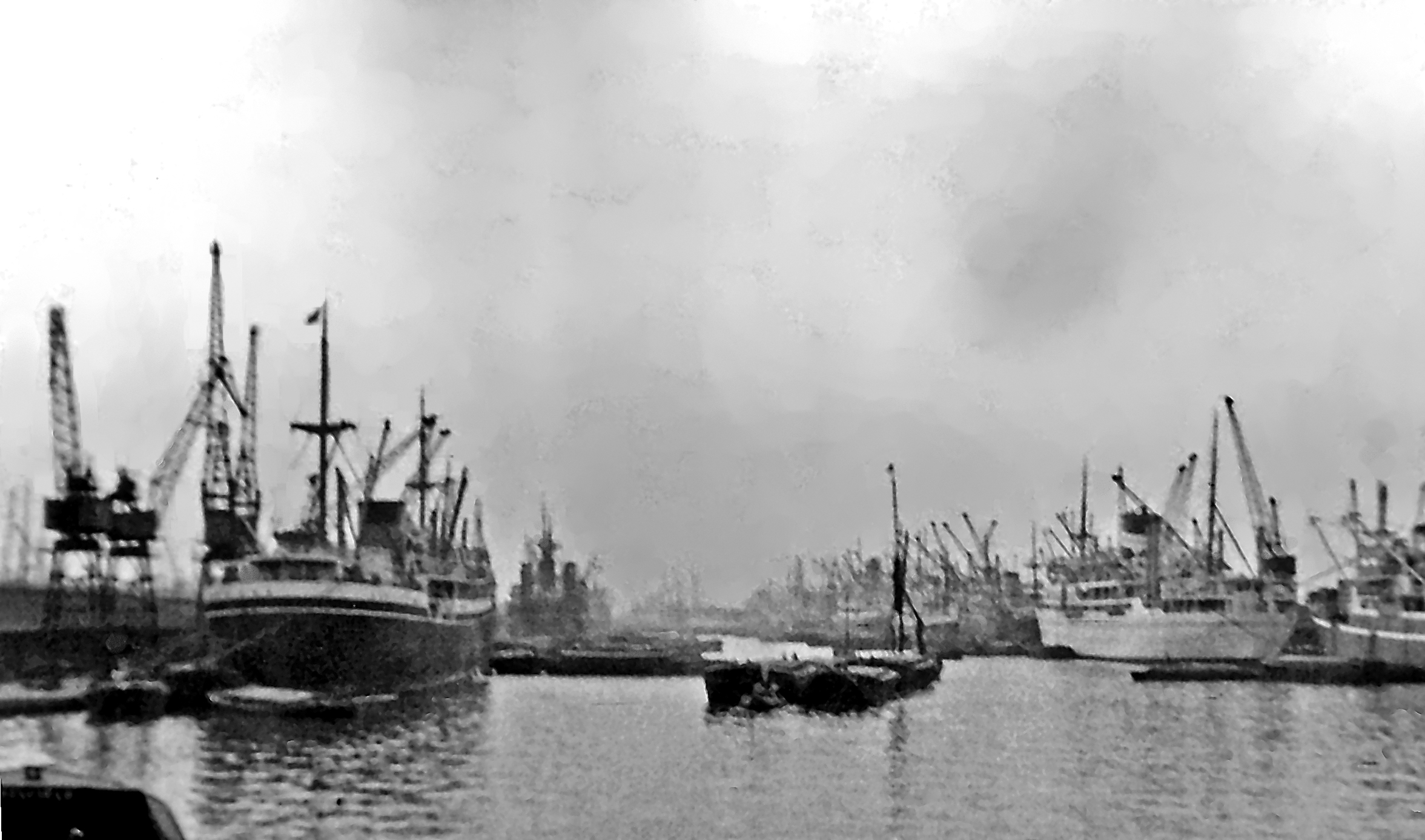 Royal Albert Dock, 1955. View west from Manor Way. It was very busy in those days.